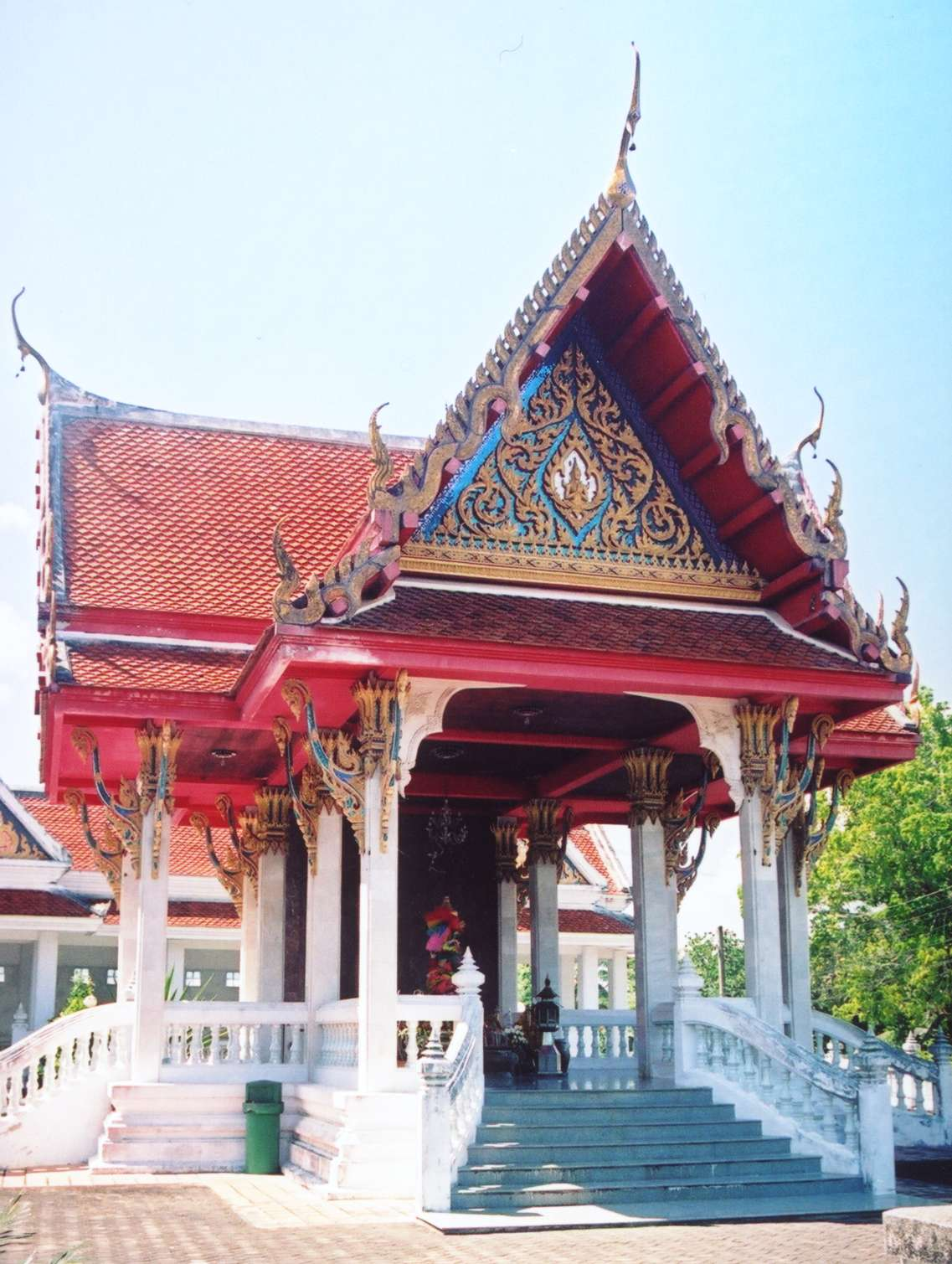 City pillar shrine (Lak Mueang) of Trang. Actually it is located in the Kantang district, the former location of the city.